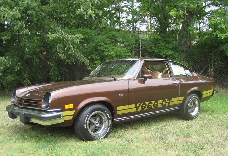 1977 Chevrolet Vega GT